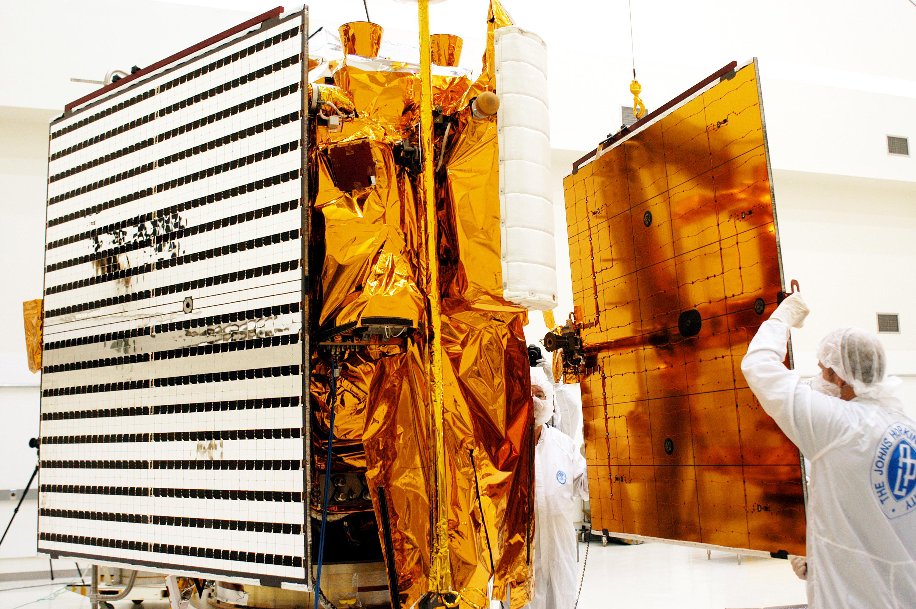 Solar Panel Installation At right, technicians at Astrotech in Titusville, Fla., guide into place the second solar panel to be installed on NASA's MESSENGER spacecraft. At left is the first panel already installed. The two large solar panels, supplemented with a nickel-hydrogen battery, will provide MESSENGER's power. MESSENGER is scheduled to launch Aug. 2 aboard a Boeing Delta II rocket from Pad 17-B, Cape Canaveral Air Force Station, Fla.